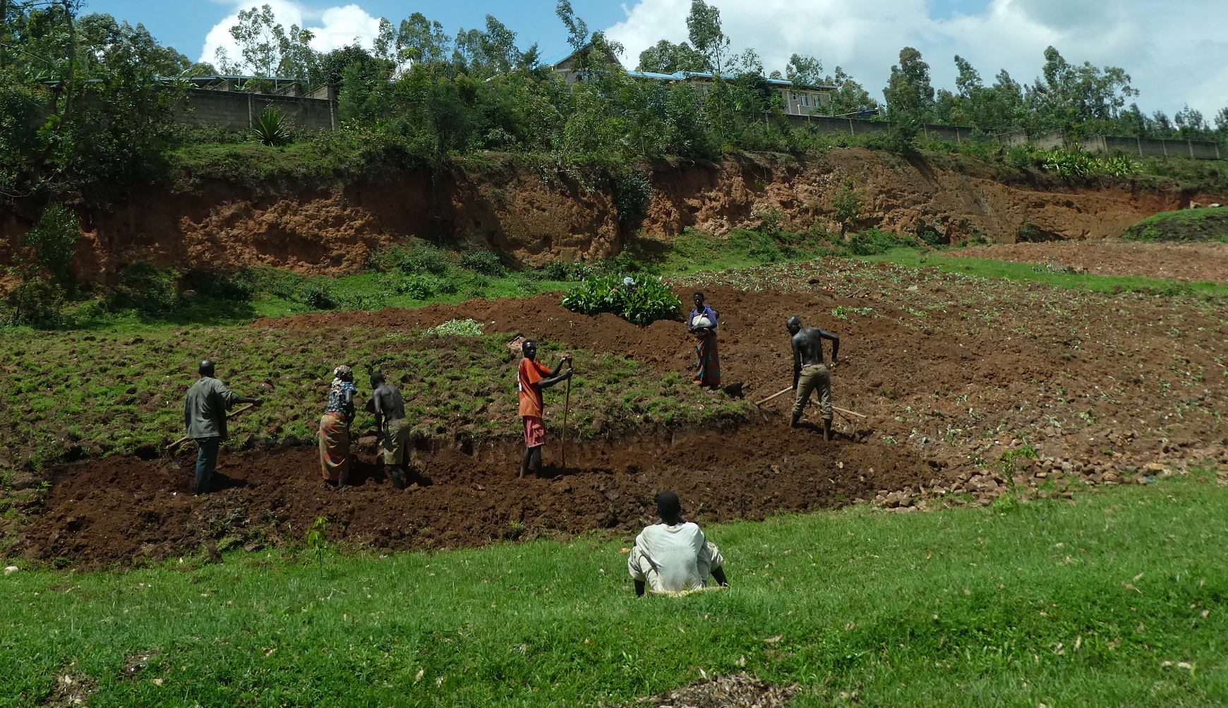 This is an image of "African people at work" from Rwanda